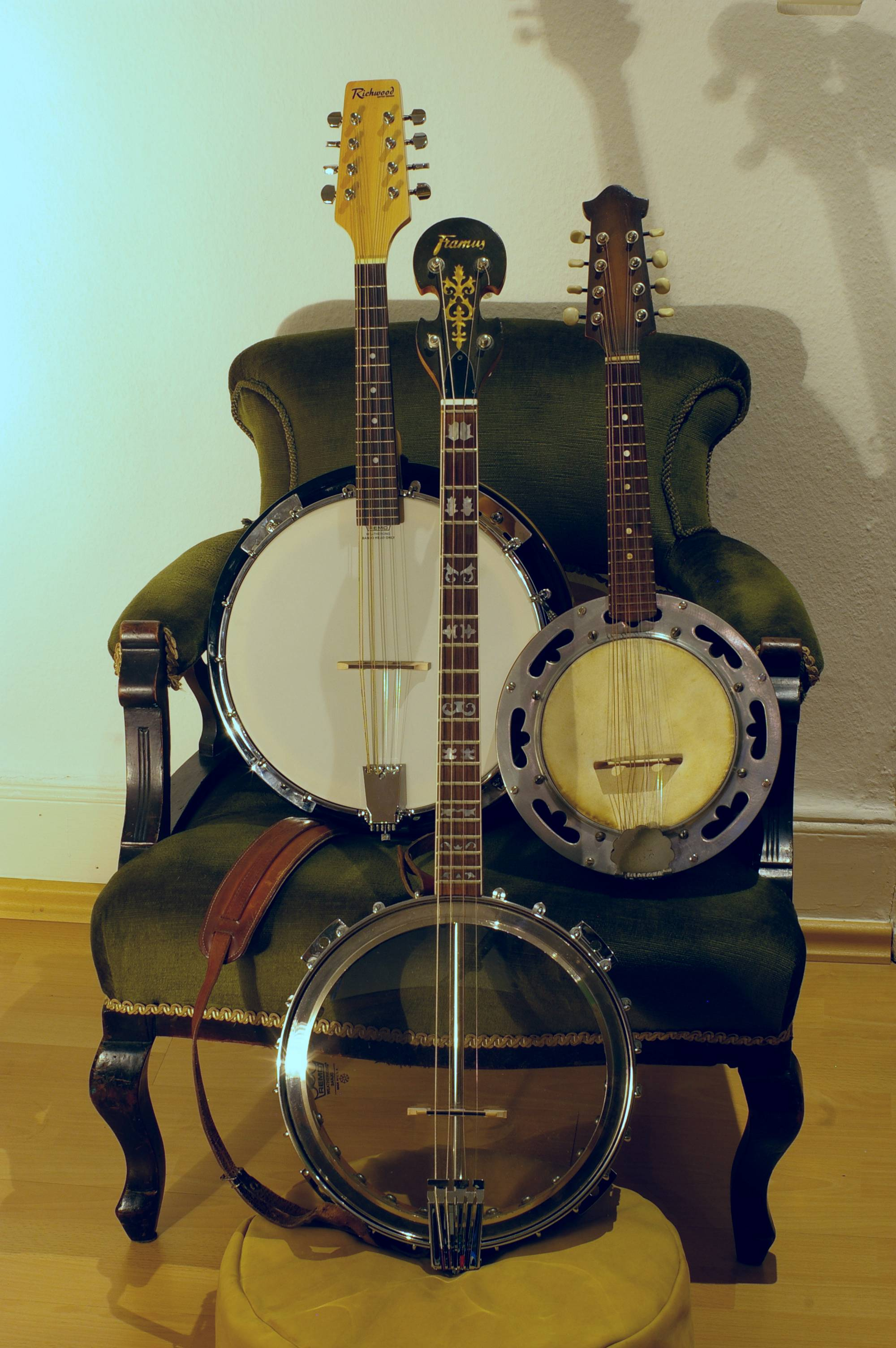 Three Mandolinbanjos - Catania, Framus and Richwood.